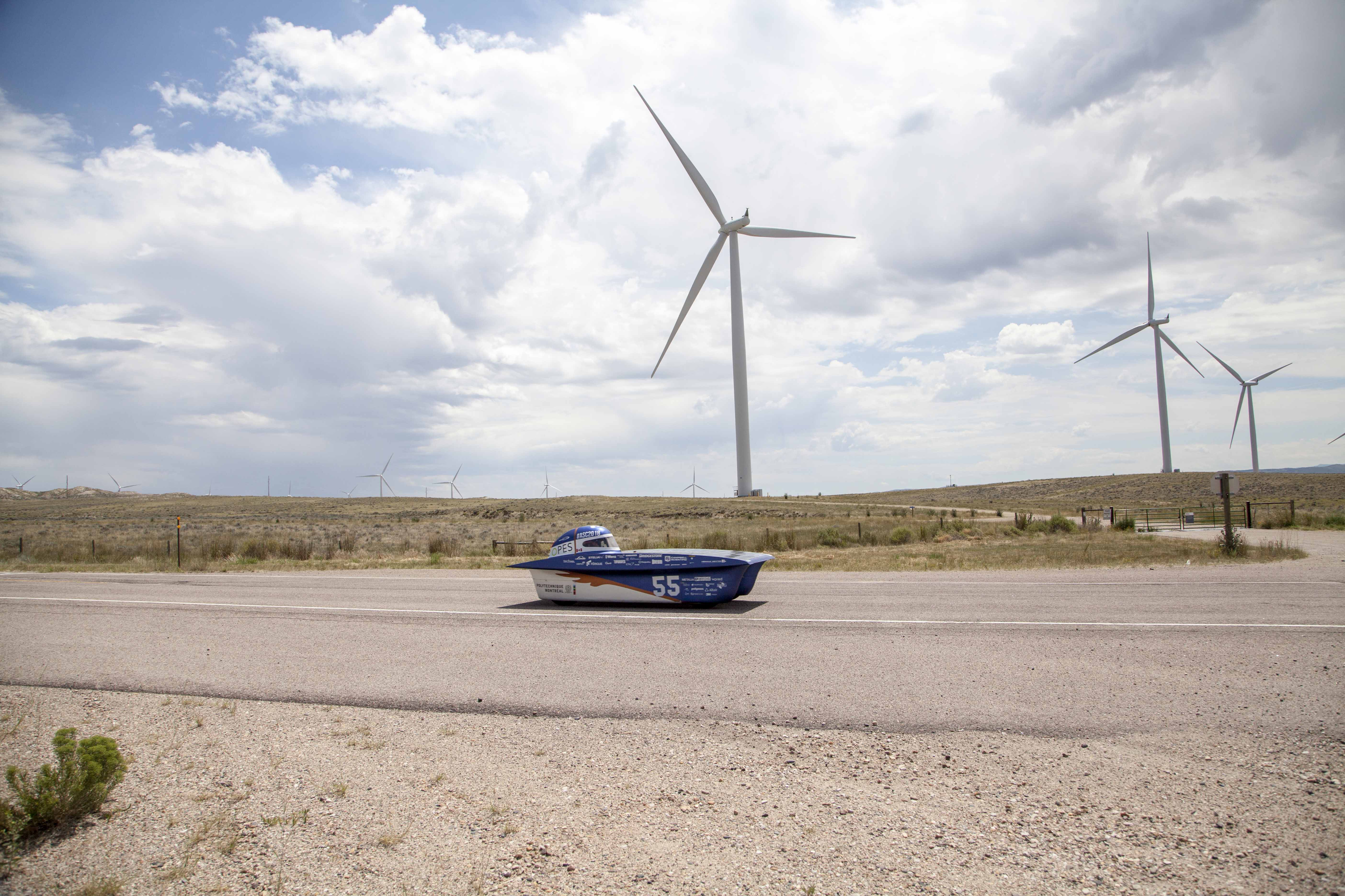 ASC2018